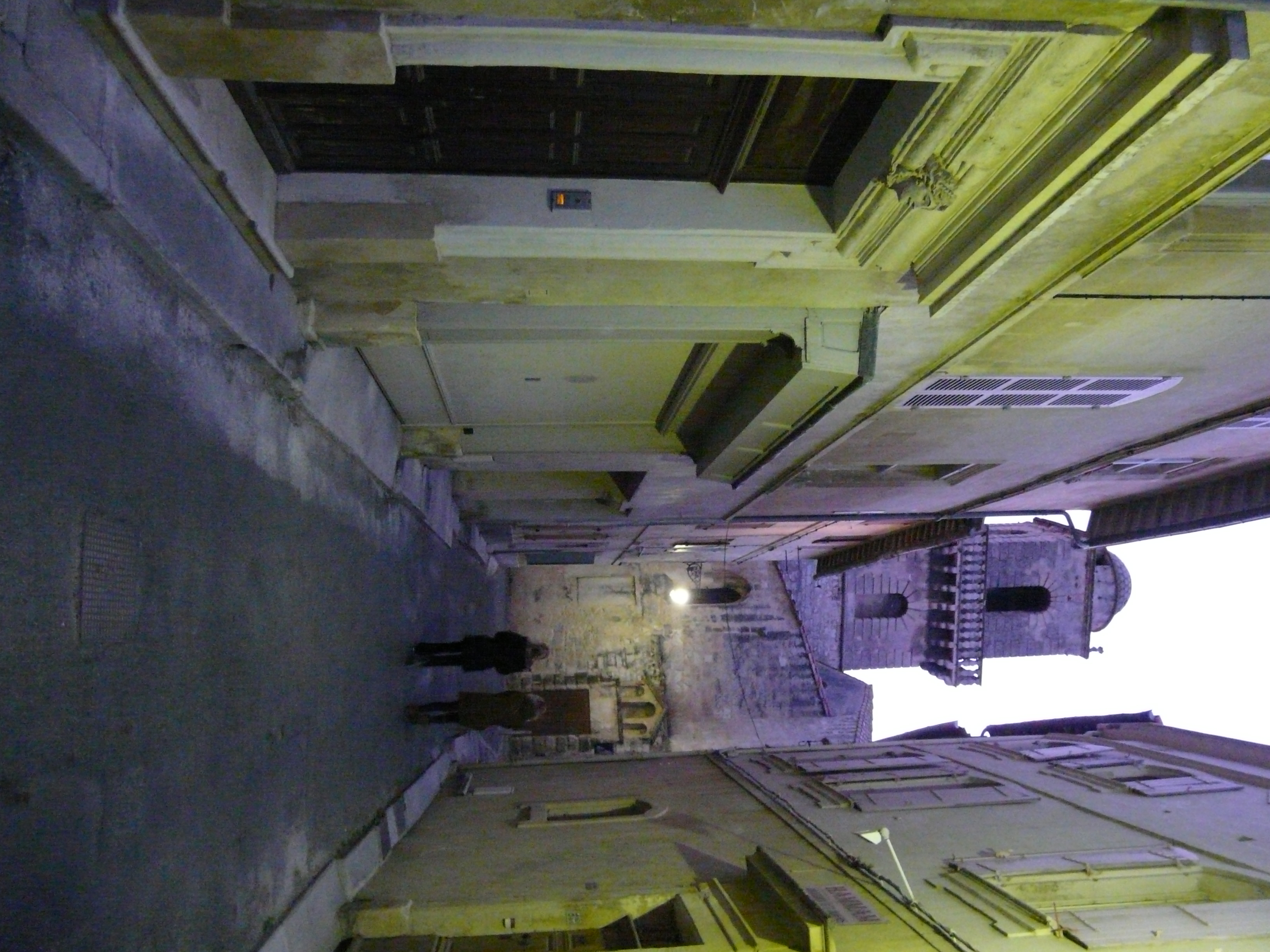 Arles has Van Gog colors in the evening. France. 12 of March, 2012.